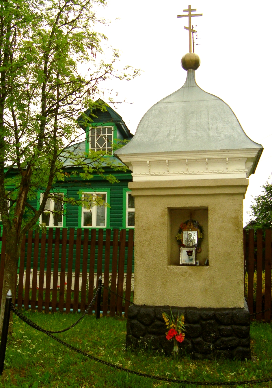 Chapel in Staroye (Old) Annino, Vladivir oblast, Russia